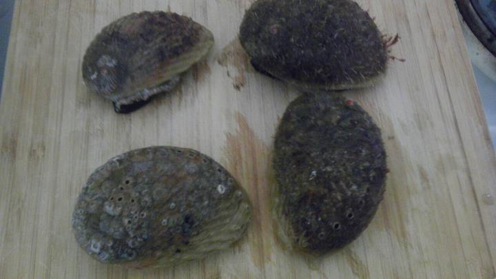 Shells of Queen Paua harvested from the wild by free divers.